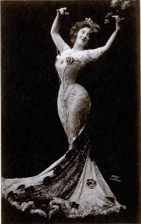 Anna Held